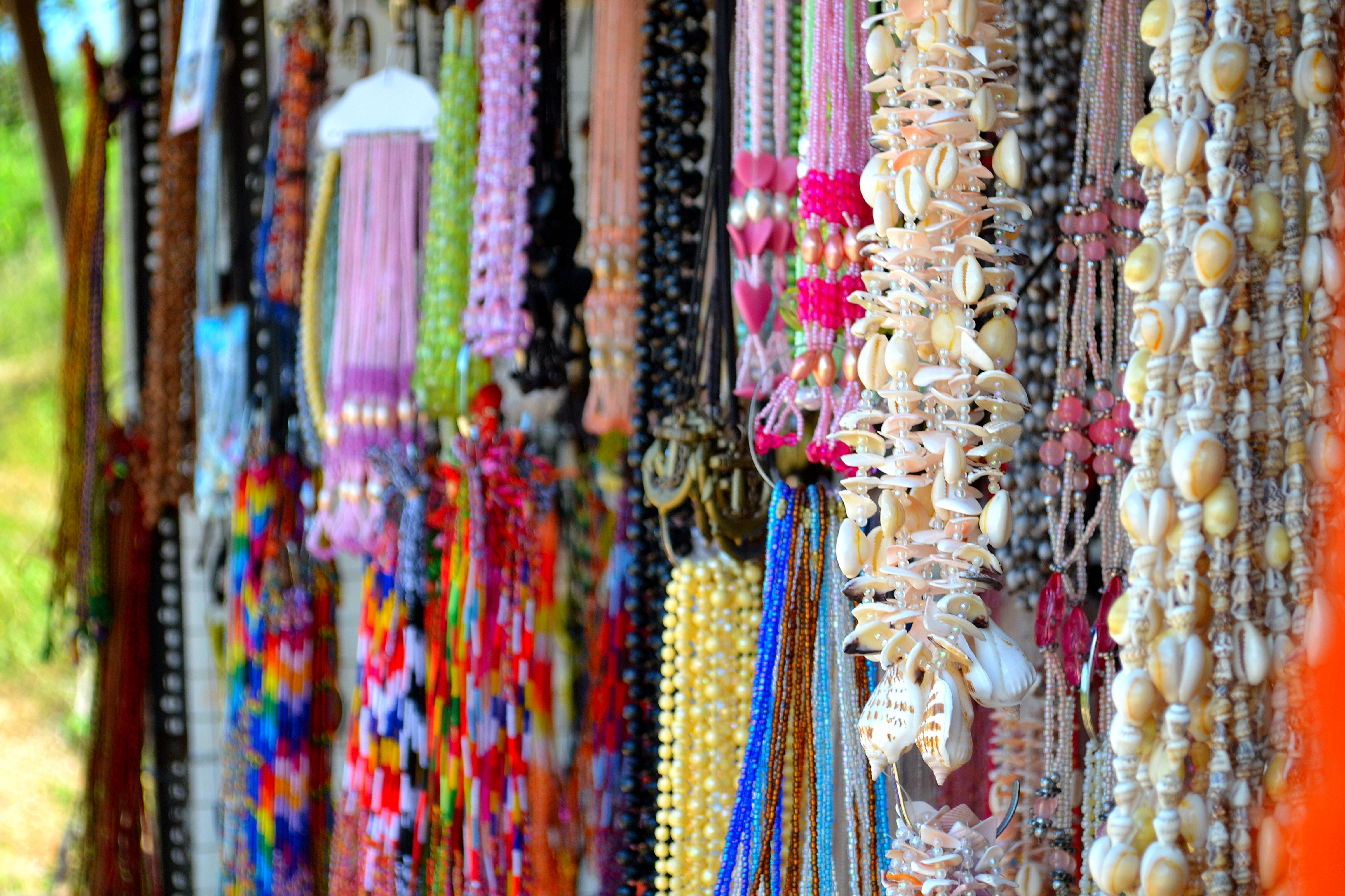 at The Koneswara Temple, Trincomalee, Sri lanka.